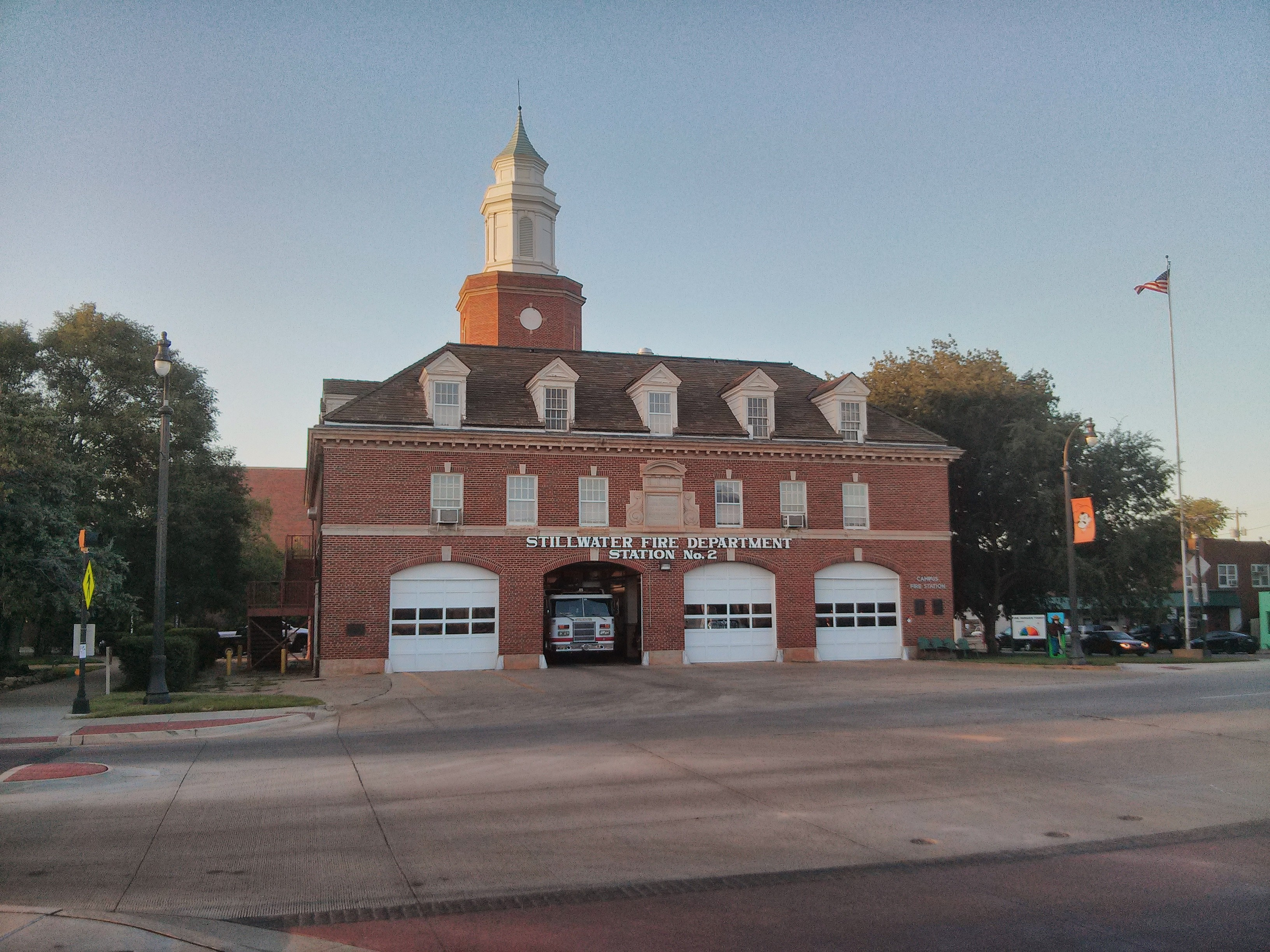 Fire Station at the edge of the Oklahoma State University campus in Stillwater, Oklahoma.